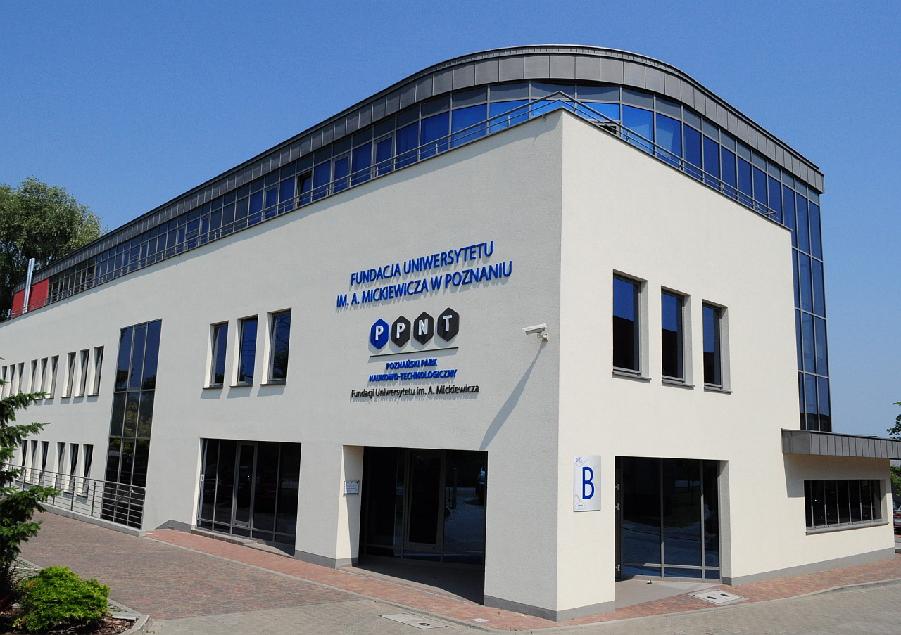 Building B of Poznan Science and Technology Park (PPNT) - Centre of Advanced Chemical Technologies (CZTChem)